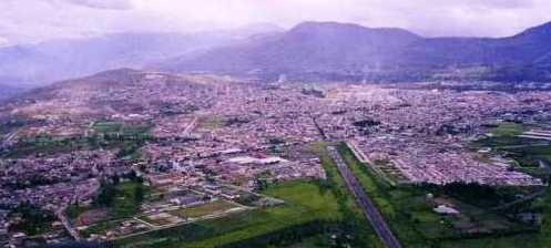 Ibarra, from paraglider flight from volcano Imbabura